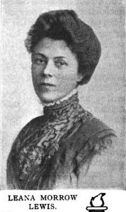 Lena Morrow Lewis, from a 1912 publication.